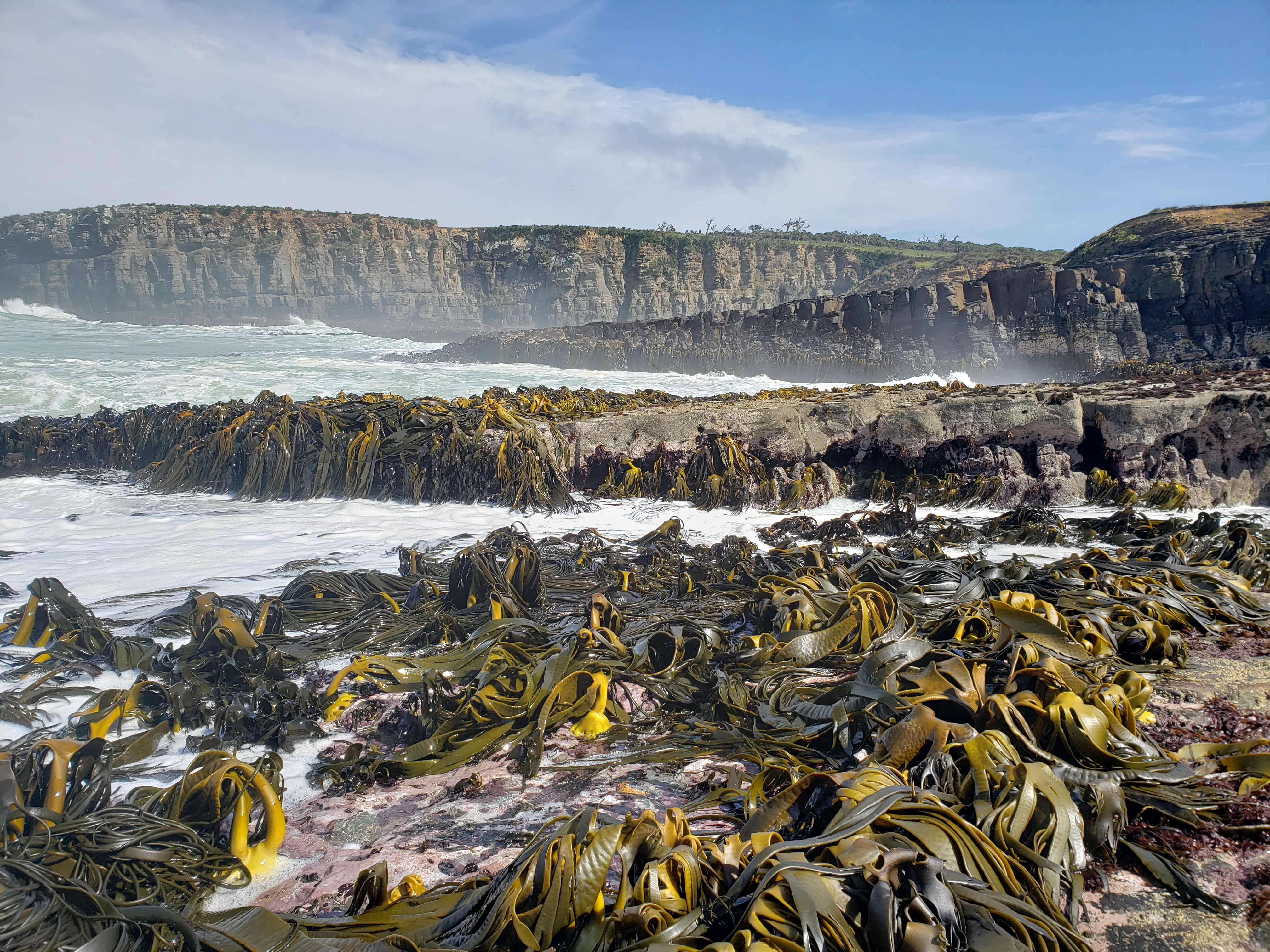 Durvillaea bull kelp on the Tautuku Peninsula in the Catlins. Durvillaea poha, D. antarctica and D. willana are all visible.